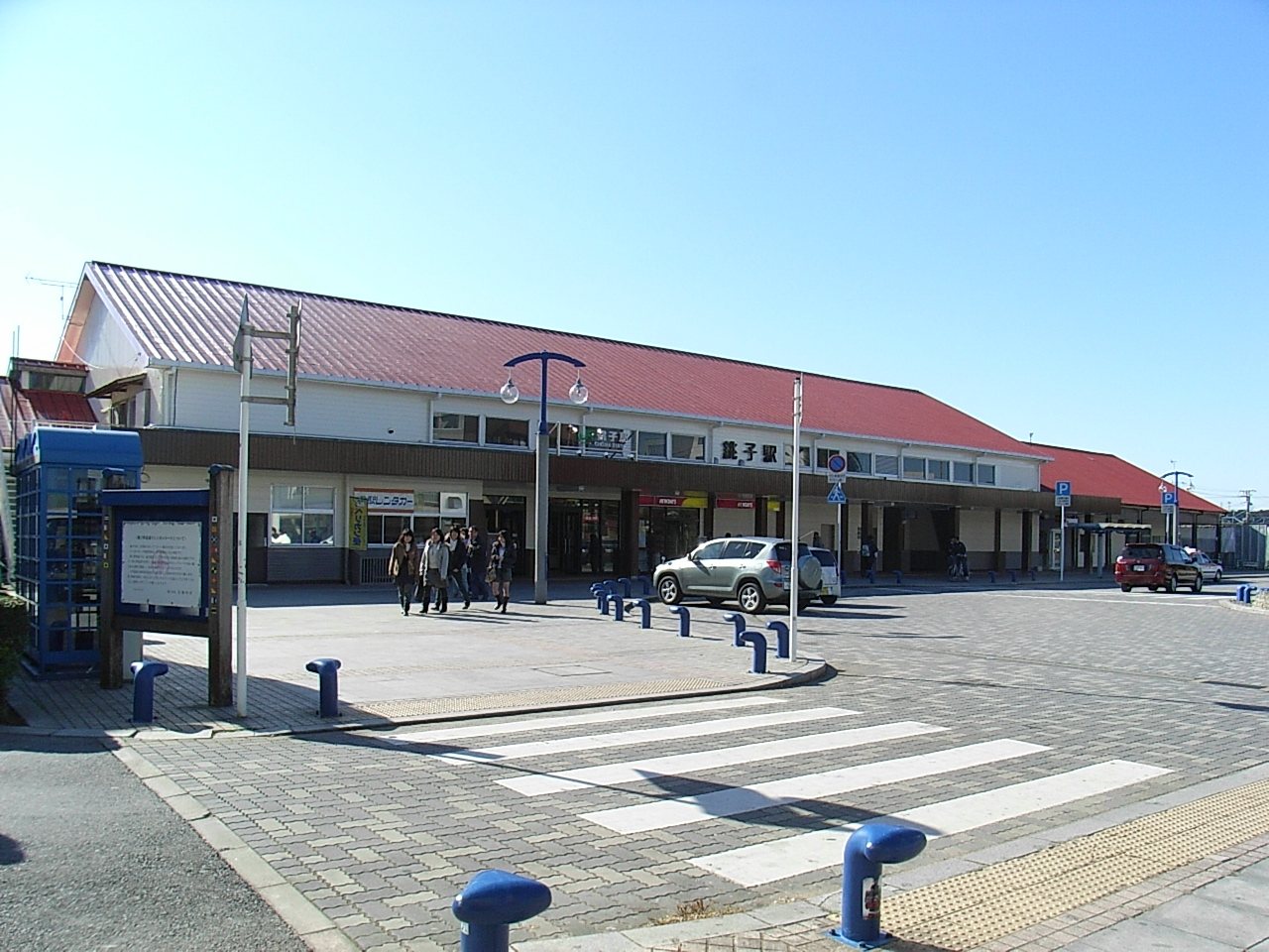 Choshi Station in Choshi, Chiba, Japan